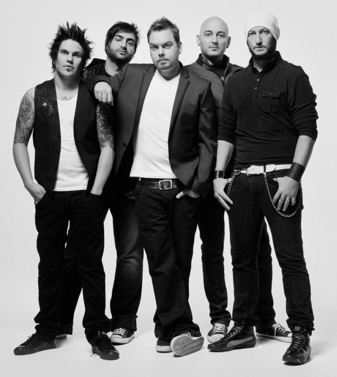 South African rock band, Prime Circle taken in 2010.